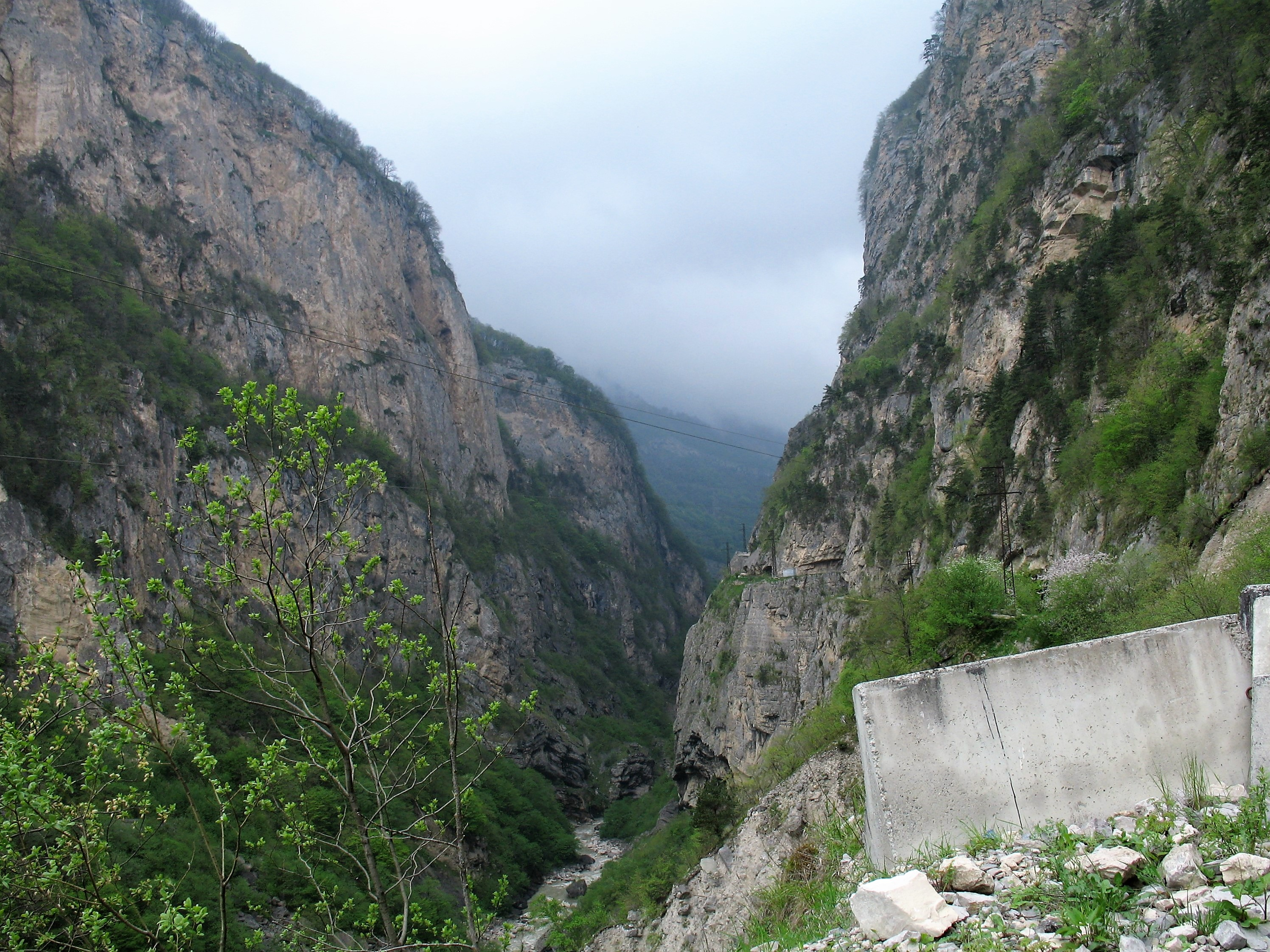 Glen of river Cherek in Kabardino-Balkaria